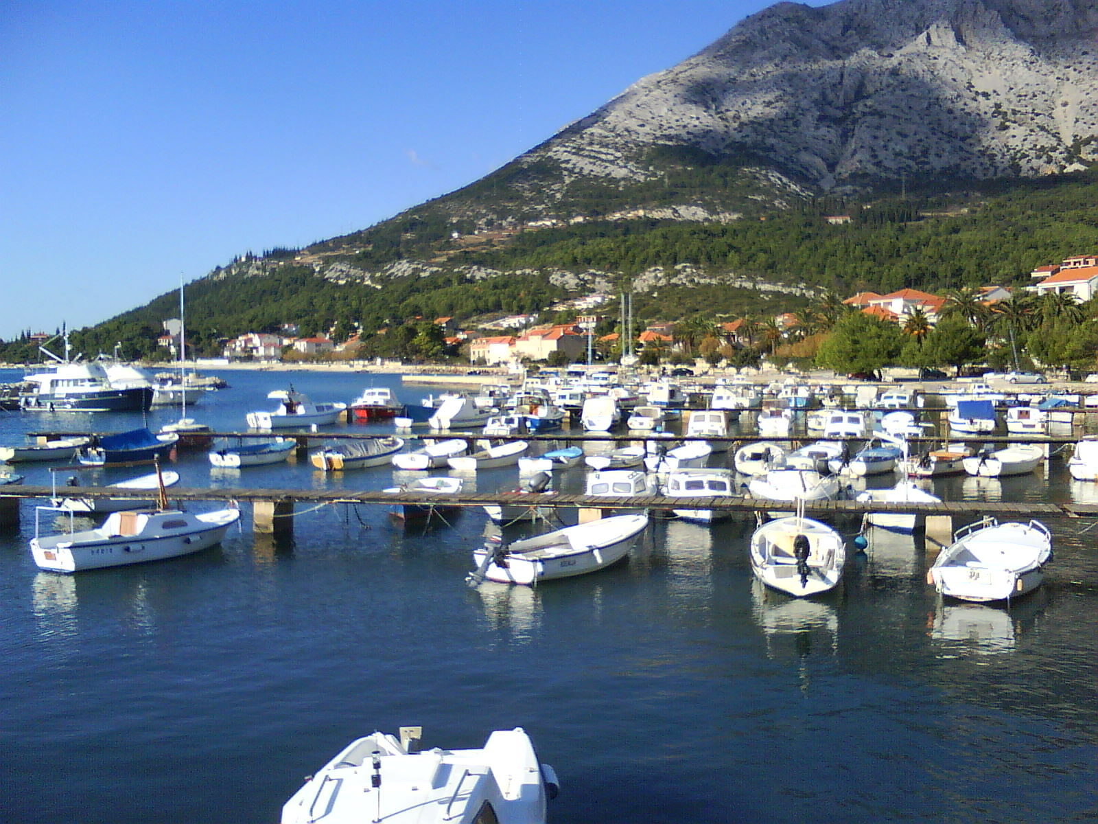 Marine in Orebić